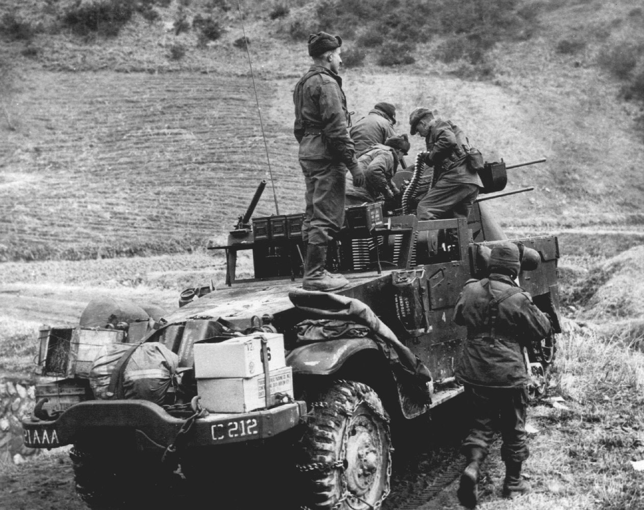 Crew firing Quad Mount Cal. 50 Multiple Gun Motor Carriage M-17, 21 AAA, Korea, 1953.